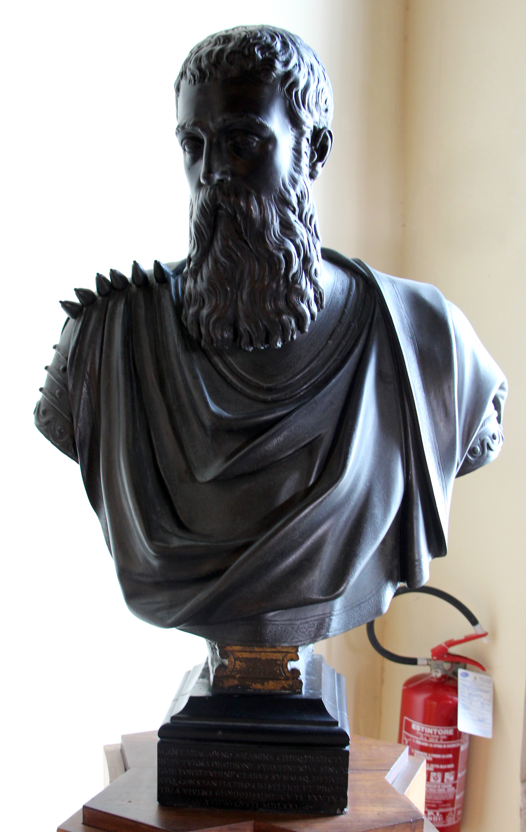 Interior of the Doge's Palace (Venice) - Armeria